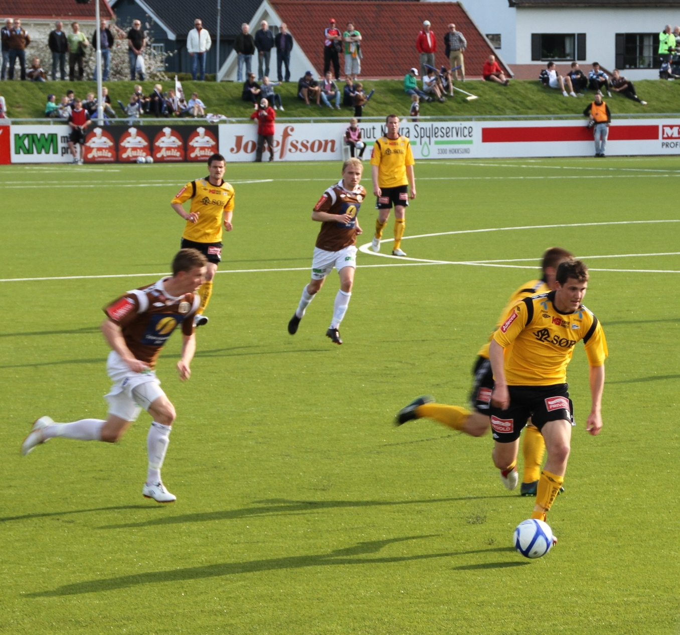 IK Start (Norway) players in match against Mjøndalen. May 20, 2012.